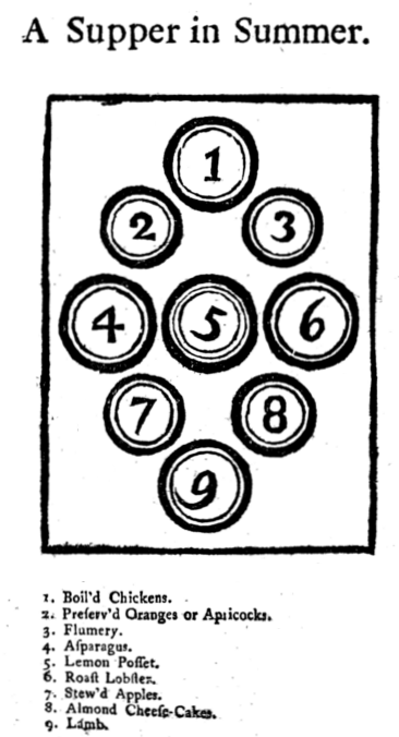 Table layout for an 18th century English middle-class supper